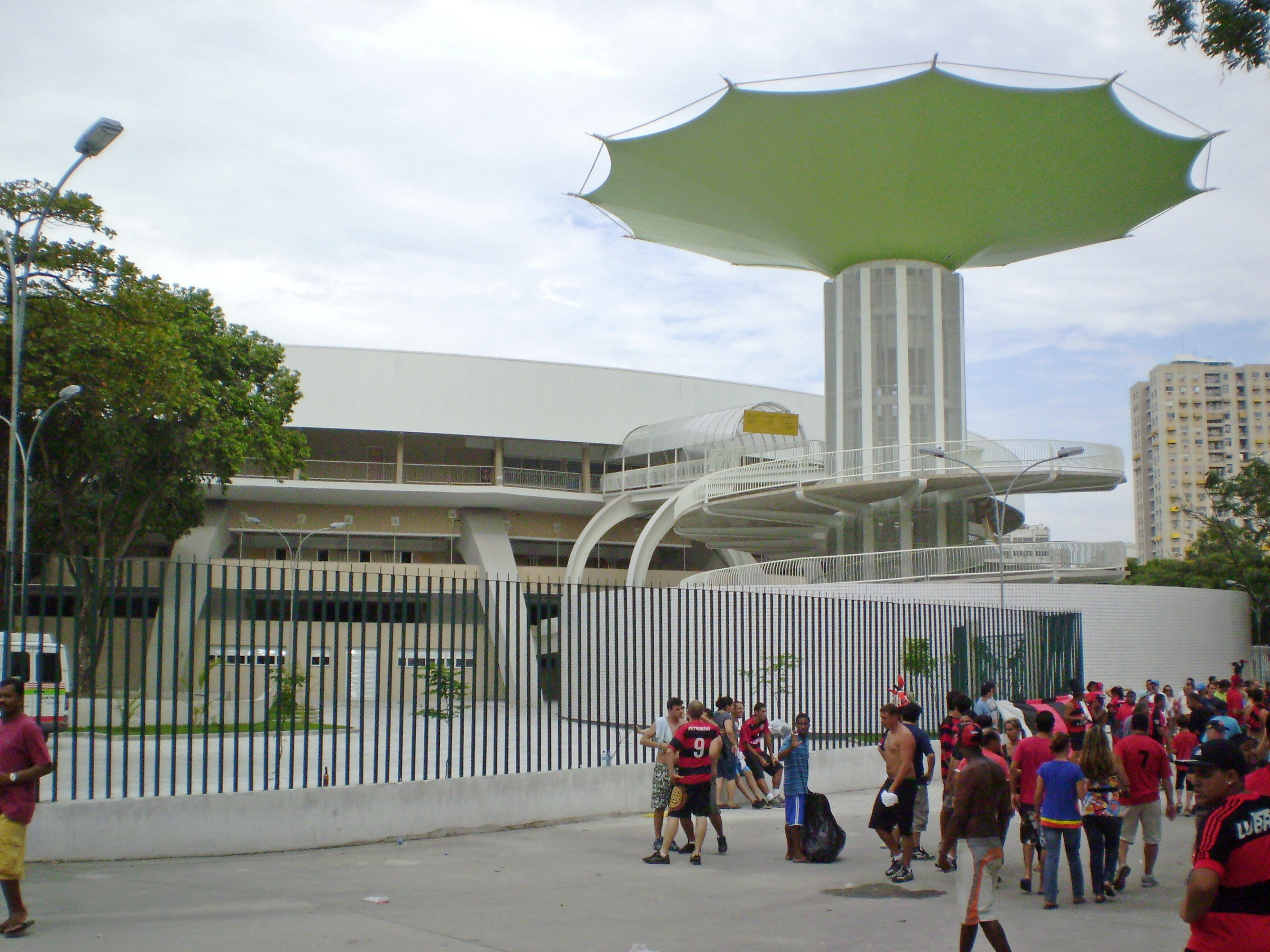 Photograph of Maracanãzinho from street level